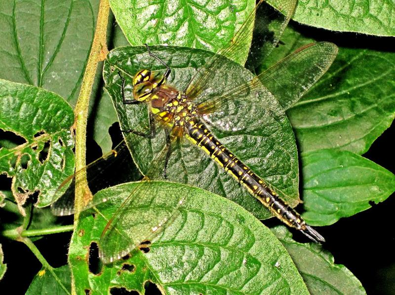 Brachytron pratense (Hairy Dragonfly) female, Arnhem, the Netherlands